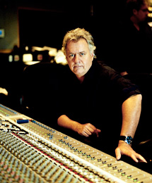 Jay Newland